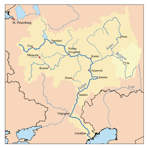 This is a map of the Volga River system with the Belaya River highlighted. I, Karl Musser, created it based on USGS data.